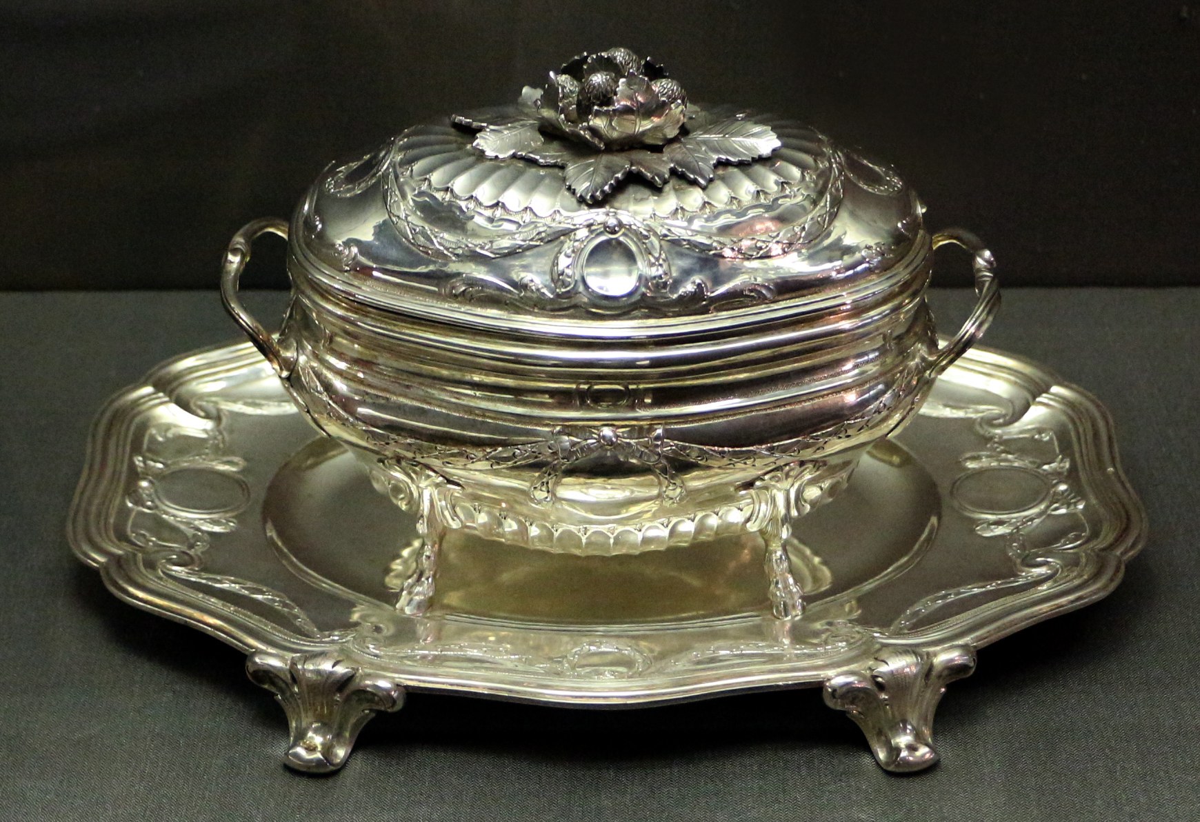 Silverware in the Calouste Gulbenkian Museum